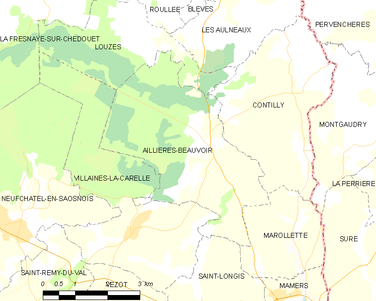 Map of French municipality